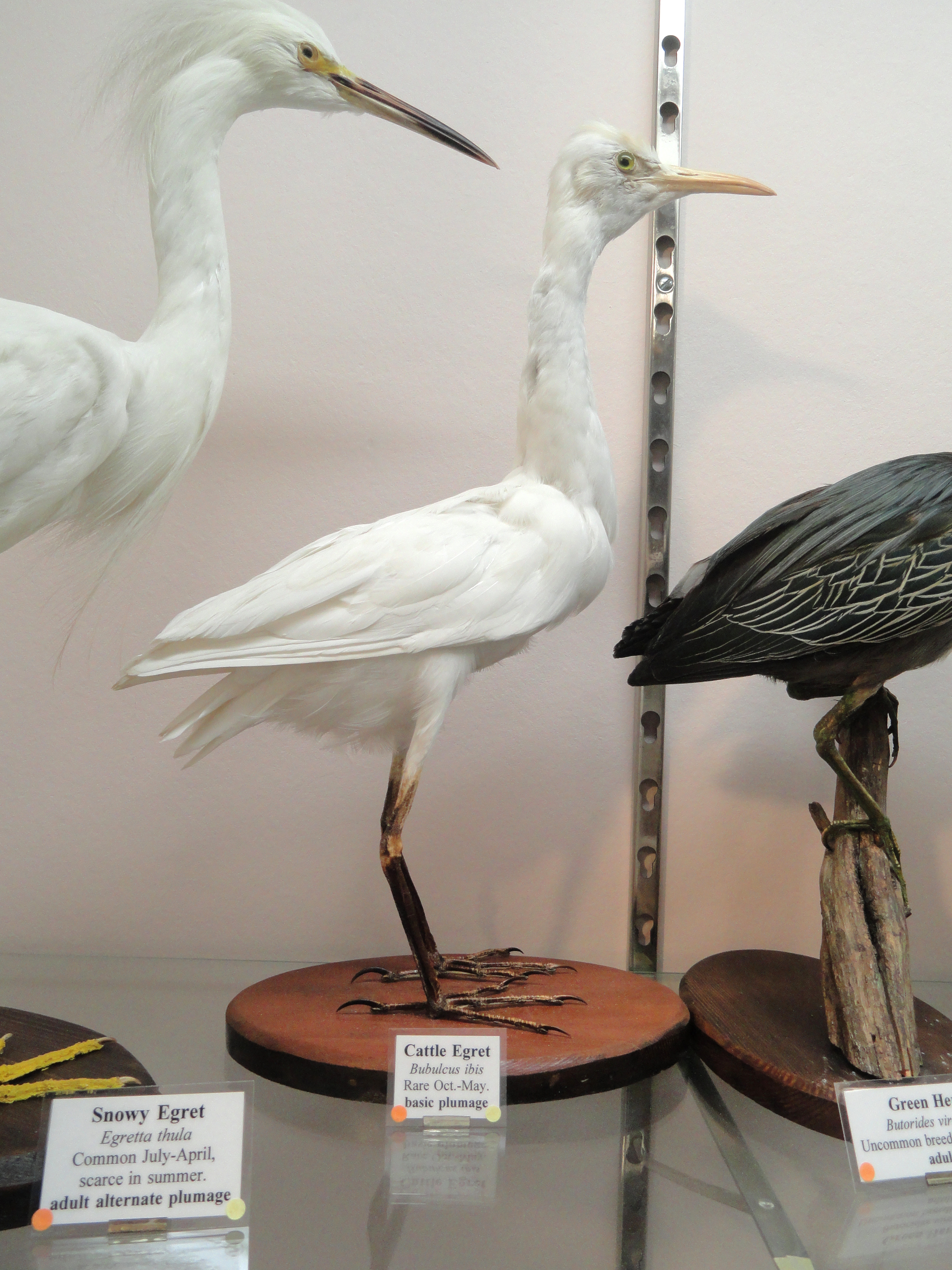 Exhibit in the Pacific Grove Museum of Natural History, Pacific Grove, California, USA. Photography was permitted without restriction in the museum.